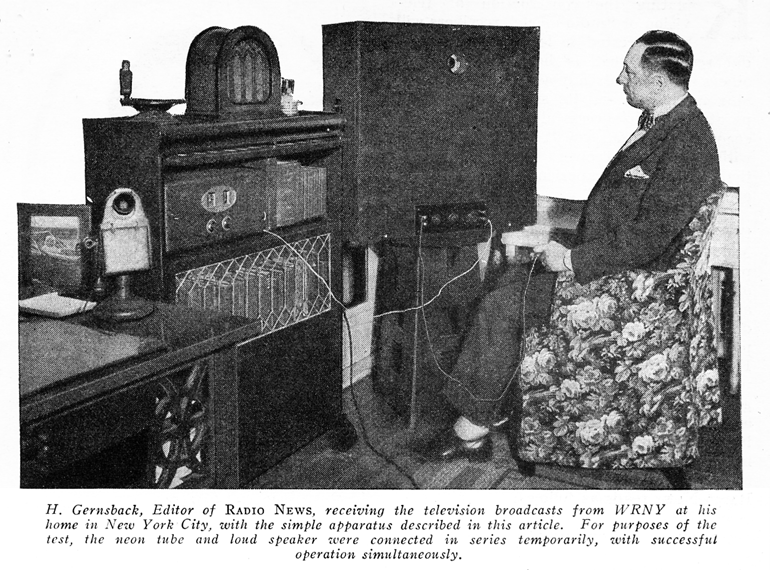 Hugo Gernsback watching television in his Manhattan apartment in August 1928. The picture is 1.5 inches square. This low definition image has 48 scan lines at 7.5 frames per second. Hugo is holding the manual synchronization control. Photo cropped from page 422 Image:Radio News Nov 1928 pg422.png Radio News, November 1928. Volume 10 Number 5. Published by Experimenter Publishing, New York, NY Editor-in-Chief and Publisher: Hugo Gernsback Table of Contents Image:Radio News Nov 1928 pg402.png The page numbers were on an annual basis, not per issue. This issue had pages 401 to 512. The magazine is 8.5 by 11.5 inches (23 by 29 cm).